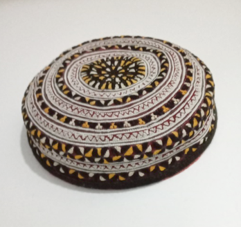 Turkmen headdress